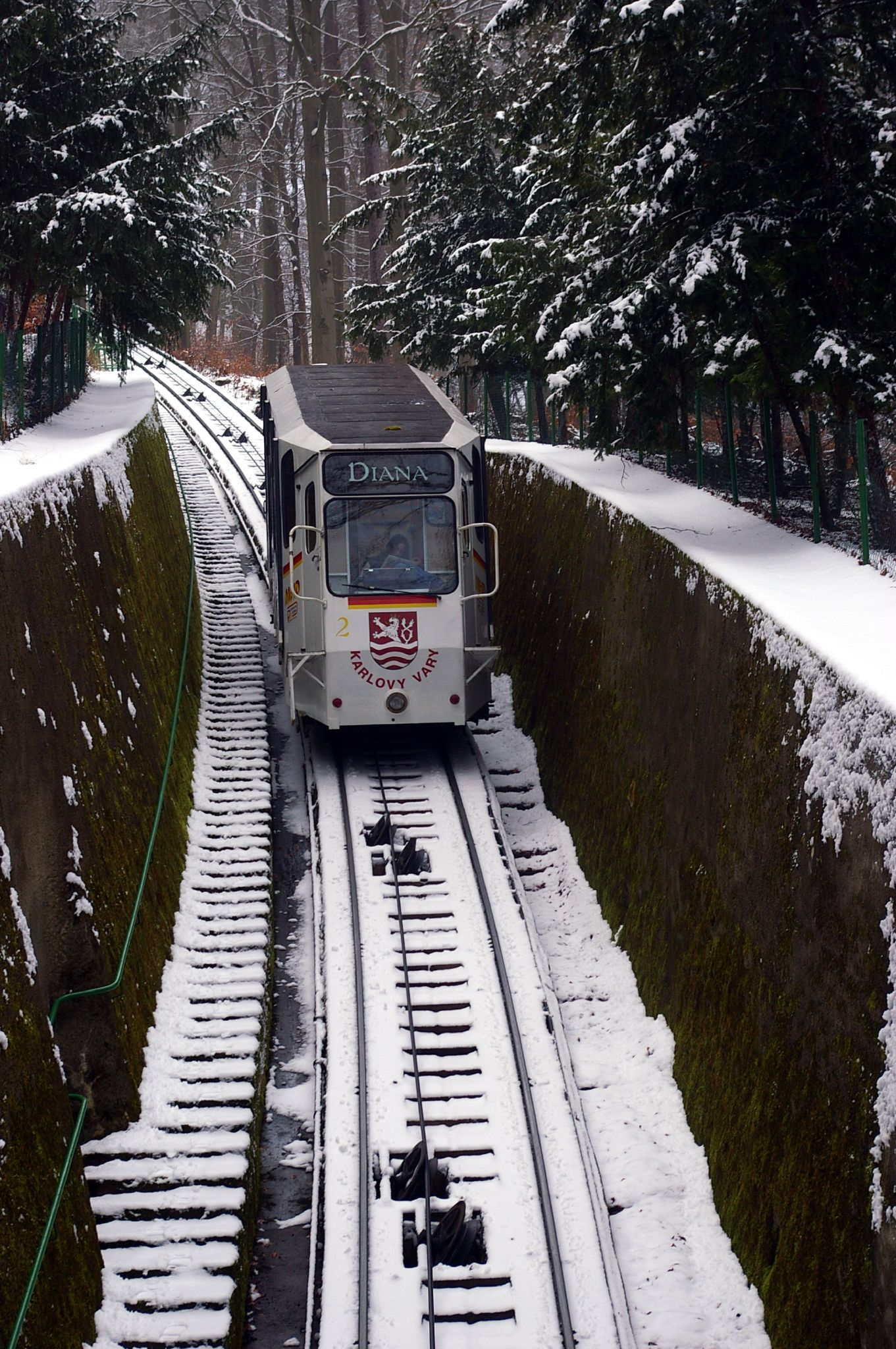 Diana Funicular in Karlovy Vary, Czech Republic.